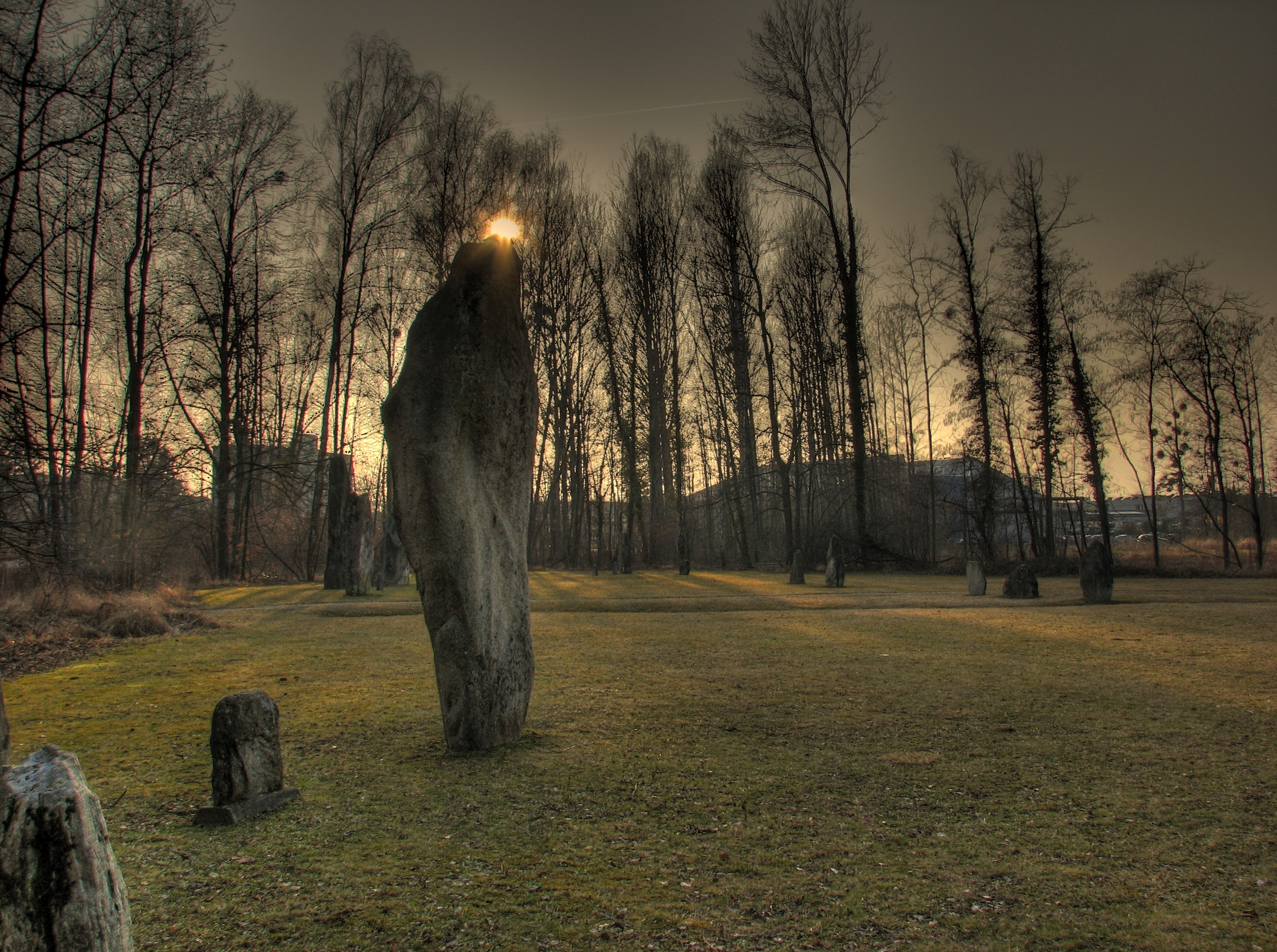 Sun aligned with a menhir in Clendy